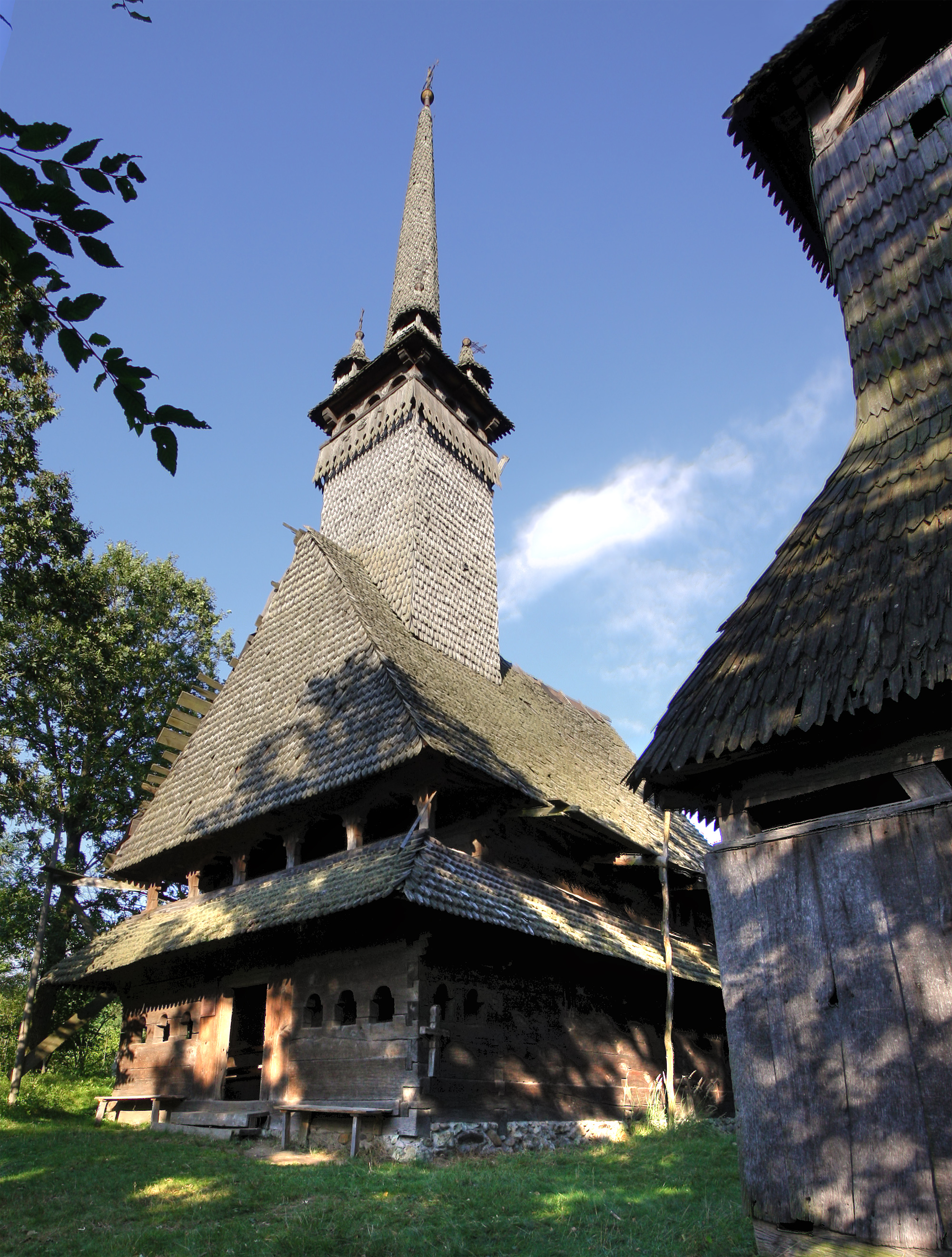 Church St. Nicholaus, Danylovo, Khust Raion, Zakarpattia Oblast, Ukraine